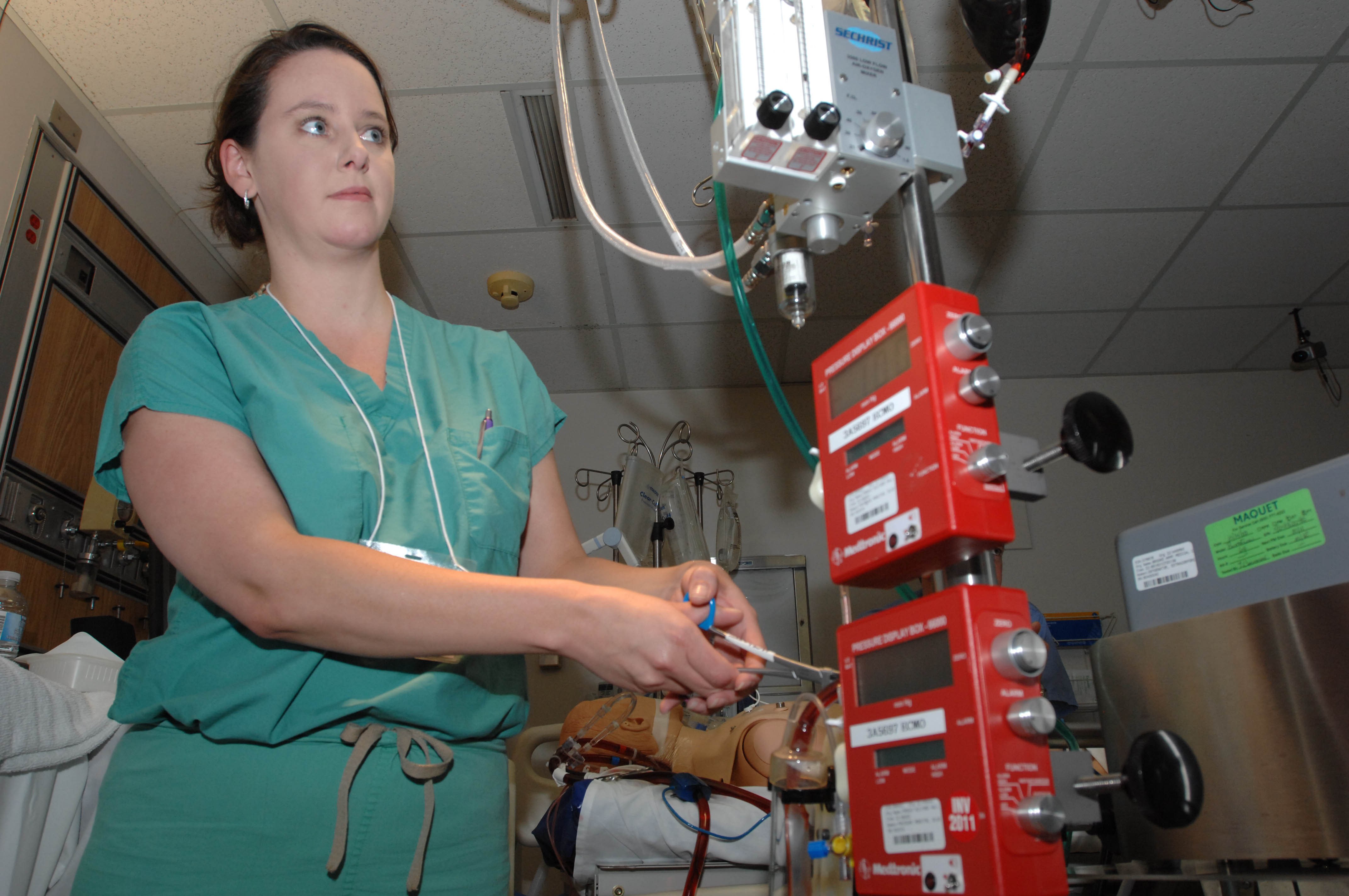 Dr. Anna Dvorak, a pulmonary critical care physician with Seton Medical Center, Austin, Texas, uses a clamp to demonstrate pressure on tubes that simulate a bladder during a class on Extracorporeal Membrane Oxygenation (ECMO) at the Wilford Hall Medical Center's Simulation Center March 25, 2011, at Lackland Air Force Base, Texas. ECMO is a heart-lung bypass system that is used to provide temporary heart and lung function to critically ill patients during periods of severe cardiopulmonary failure. This intense three-day course was the fourth course in the U.S., the first held at an Air Force hospital, designed for physicians and specialists caring for adult patients with severe acute respiratory failure who need to be placed on ECMO. (U.S. Air Force photo by Staff Sgt. Robert Barnett/Released)